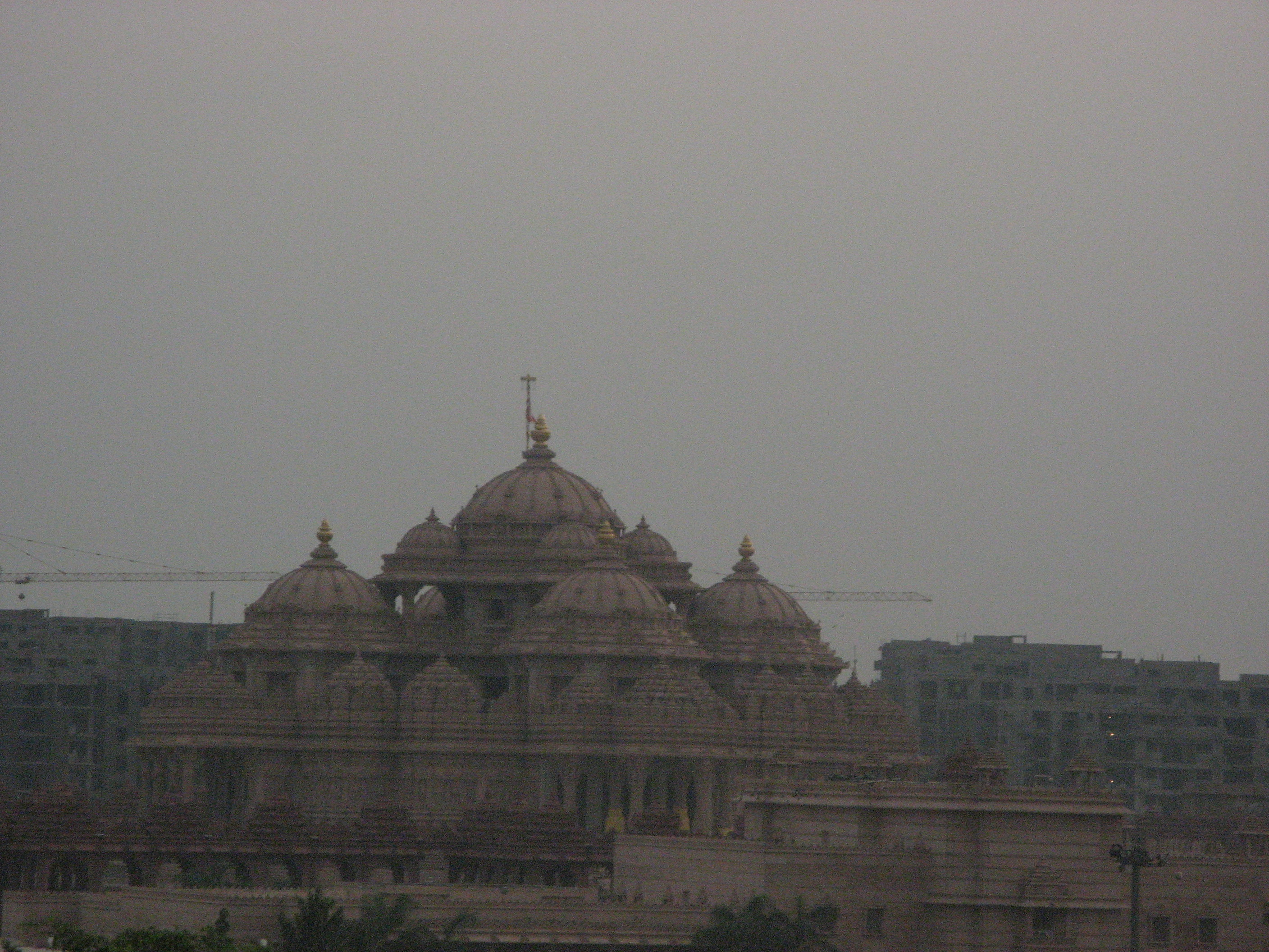 Delhi Akshardham Temple